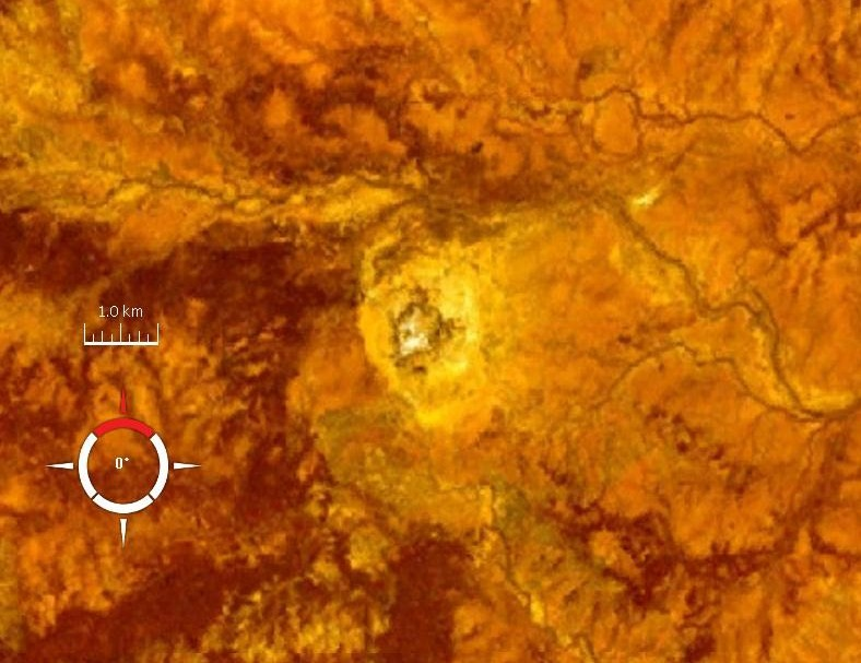 Landsat image of Mount Toondina crater, South Australia; screen capture from the NASA World Wind. Situated about 50km south of Oodnadatta, South Australia